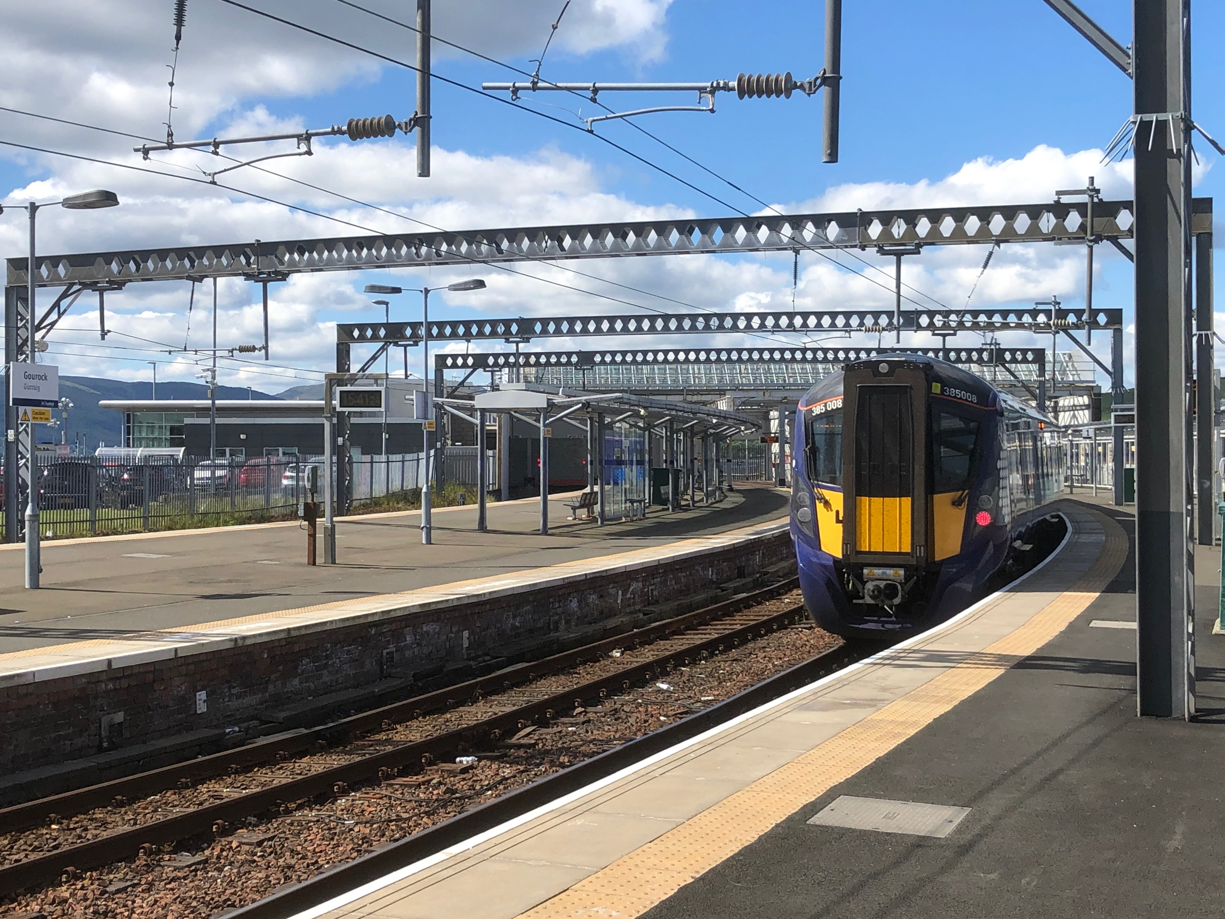 Gourock railway station with British Rail Class 385 at platform 1 of , nine days after these trains came into service on the Inverclyde Line.